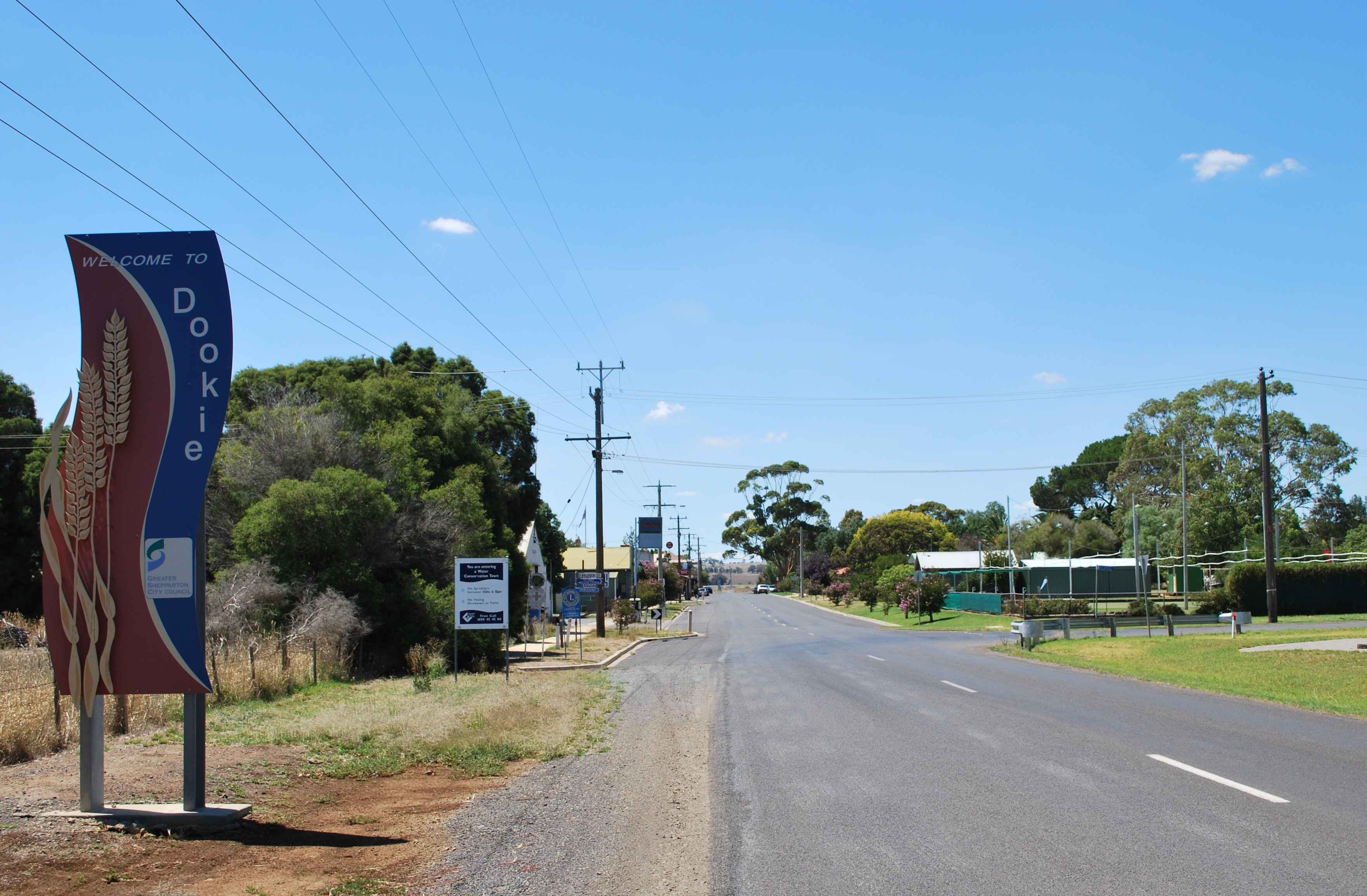 Mary St, the main street of Dookie, Victoria